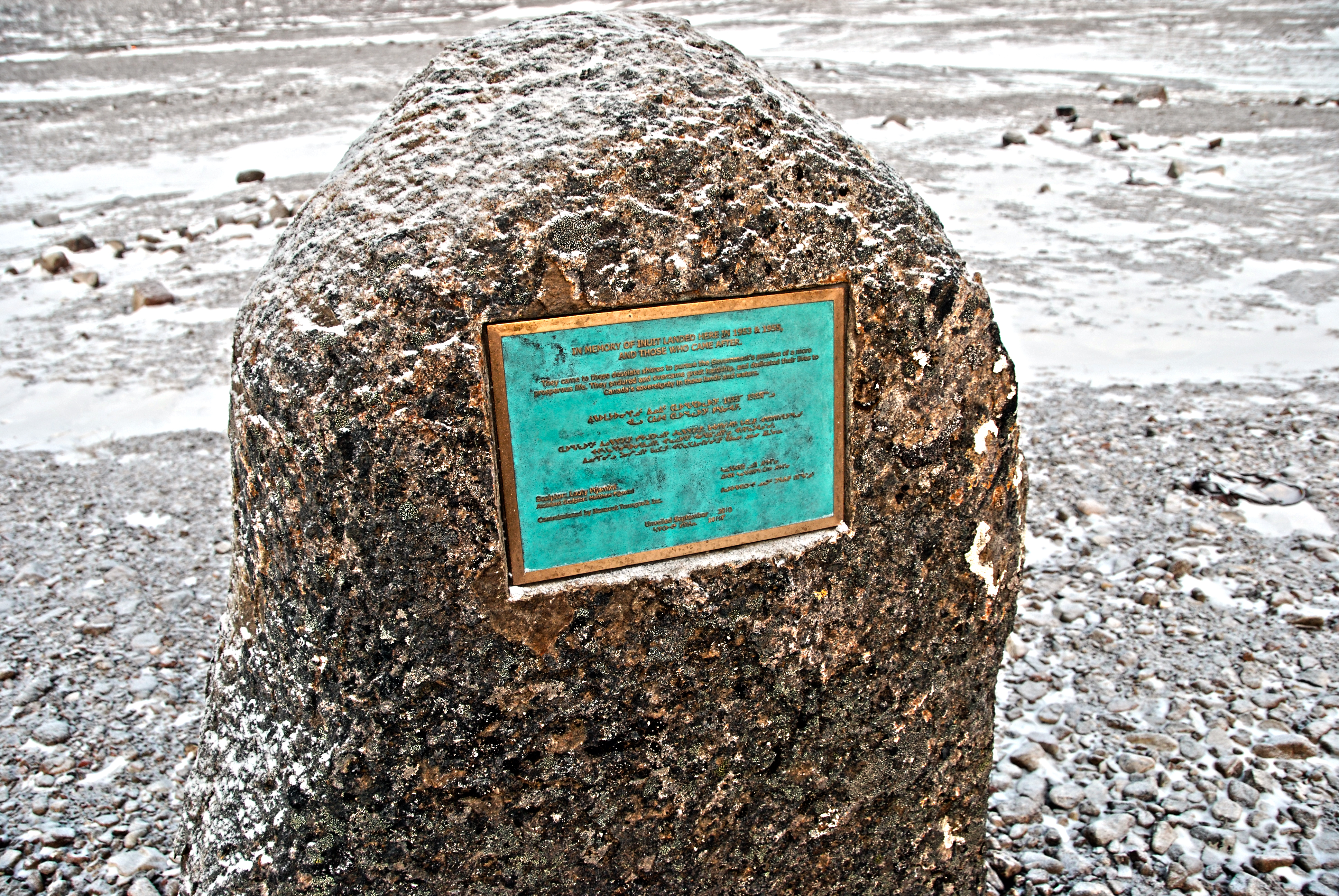 Commemoration Plaque at Grise Fiord Nunavut.